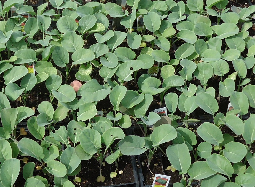 Broccoli plants in a nursery in Cranford, New Jersey on April 14, 2012 (correct date).